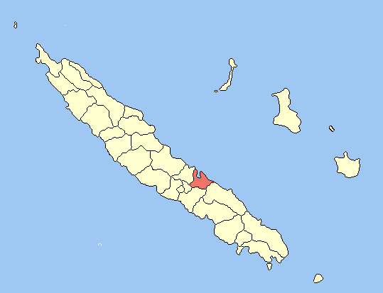 Created map myself.